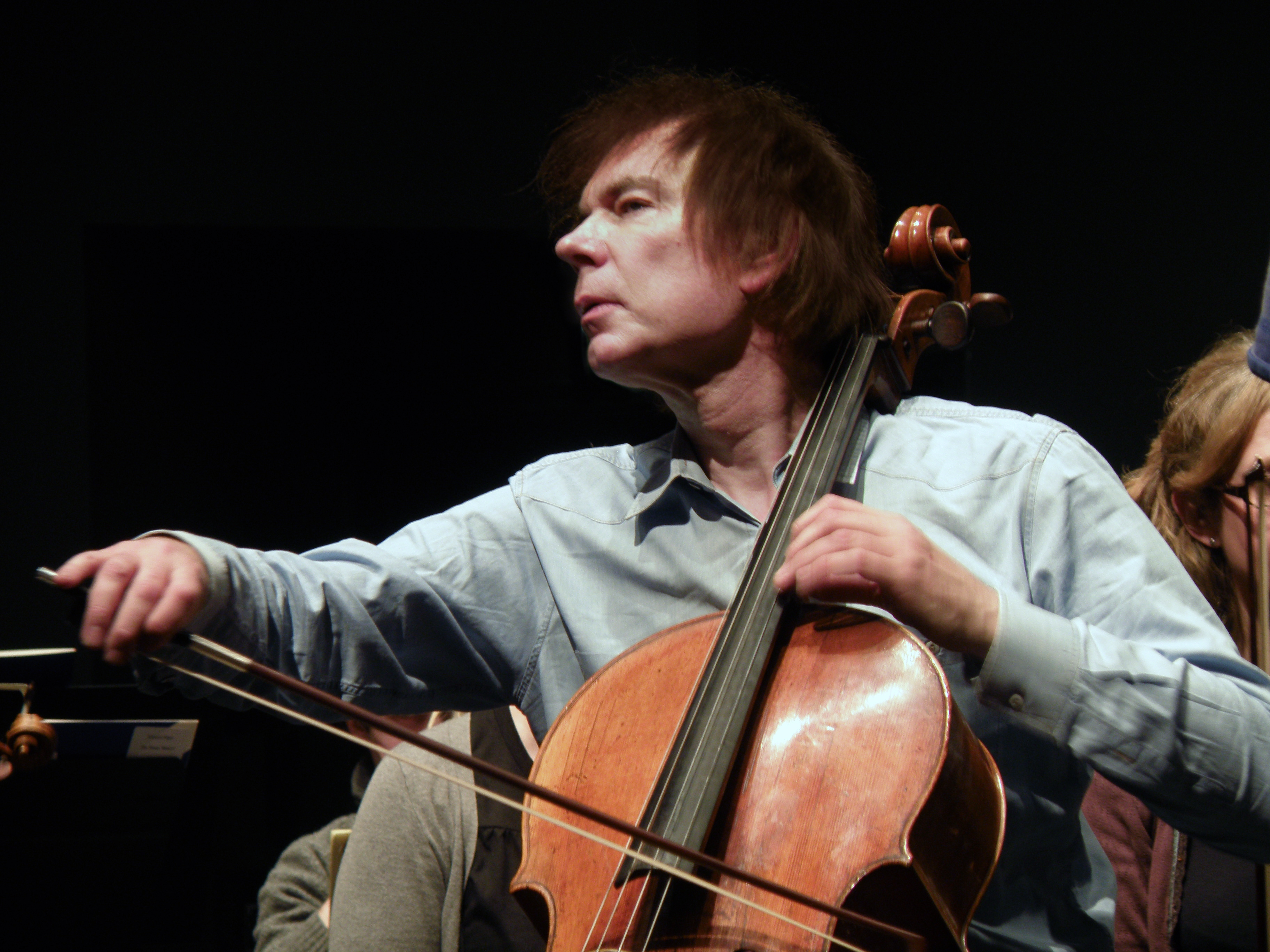 Julian Lloyd Webber at the G Live, Guildford, UK in 2013